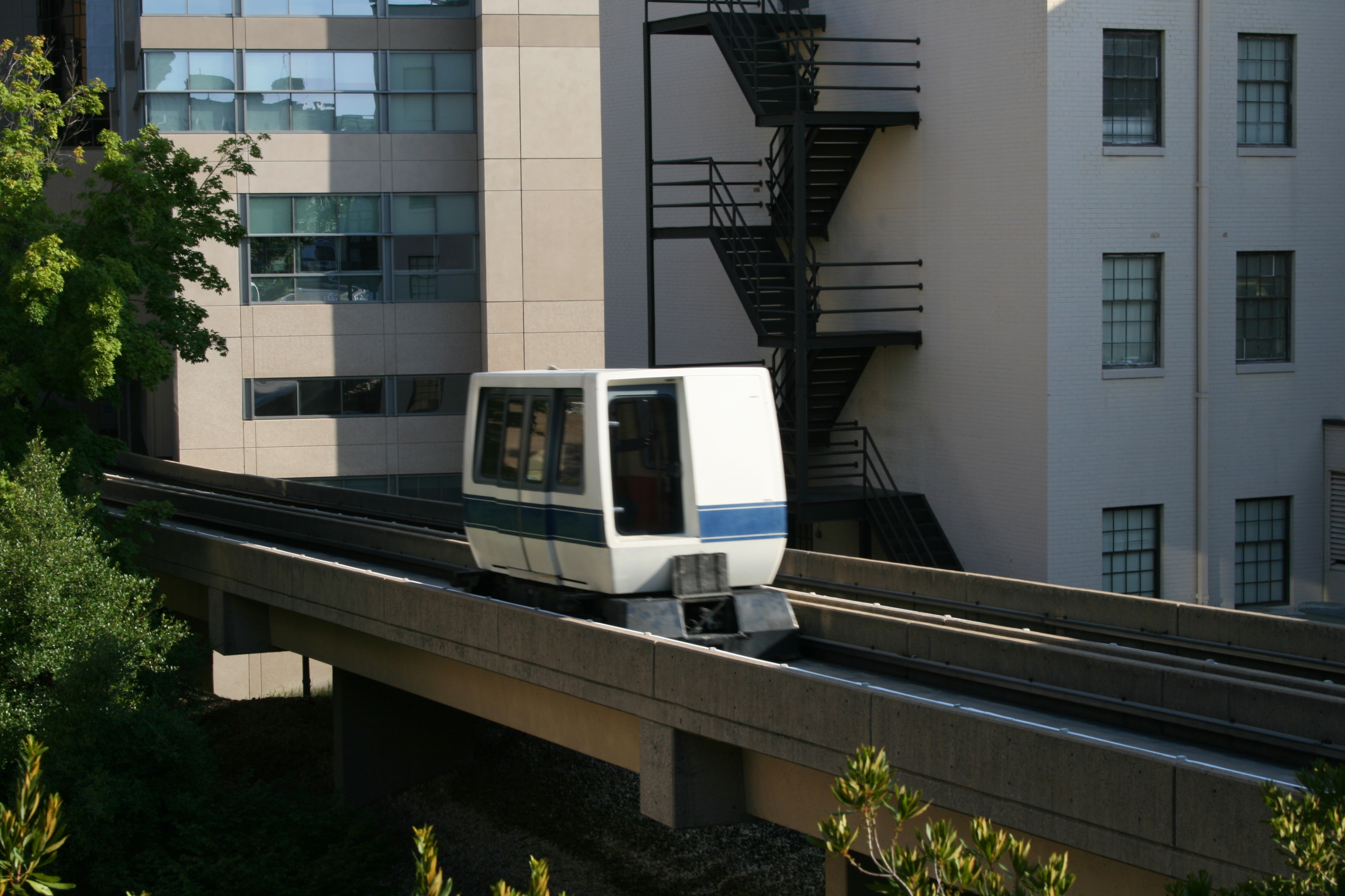 The Patient Rapid Transit (PRT) monorail train connecting parts of the Duke University Medical Center (DUMC) in Durham, North Carolina.